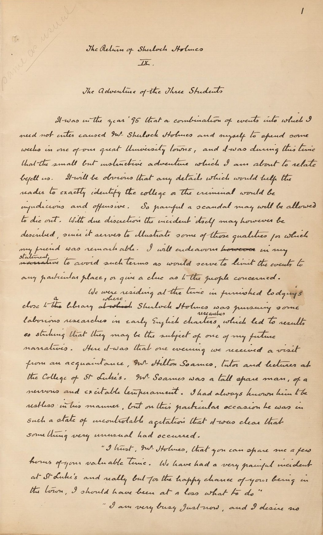 First page of the original manuscript of the short story "The Adventures of the Three Students" by Arthur Conan Doyle (1859-1930), ca. 1904 or earlier. MS Eng 63, Houghton Library, Harvard University